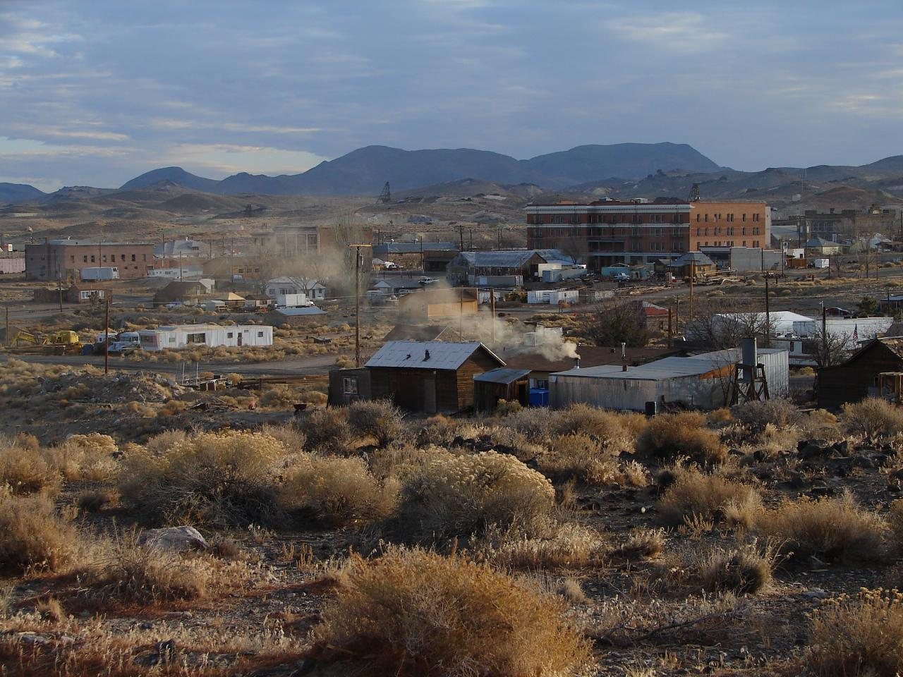 Center of Goldfield, Nevada, with the Goldfield Hotel.